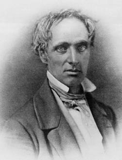 Engraving of David Dale Owen